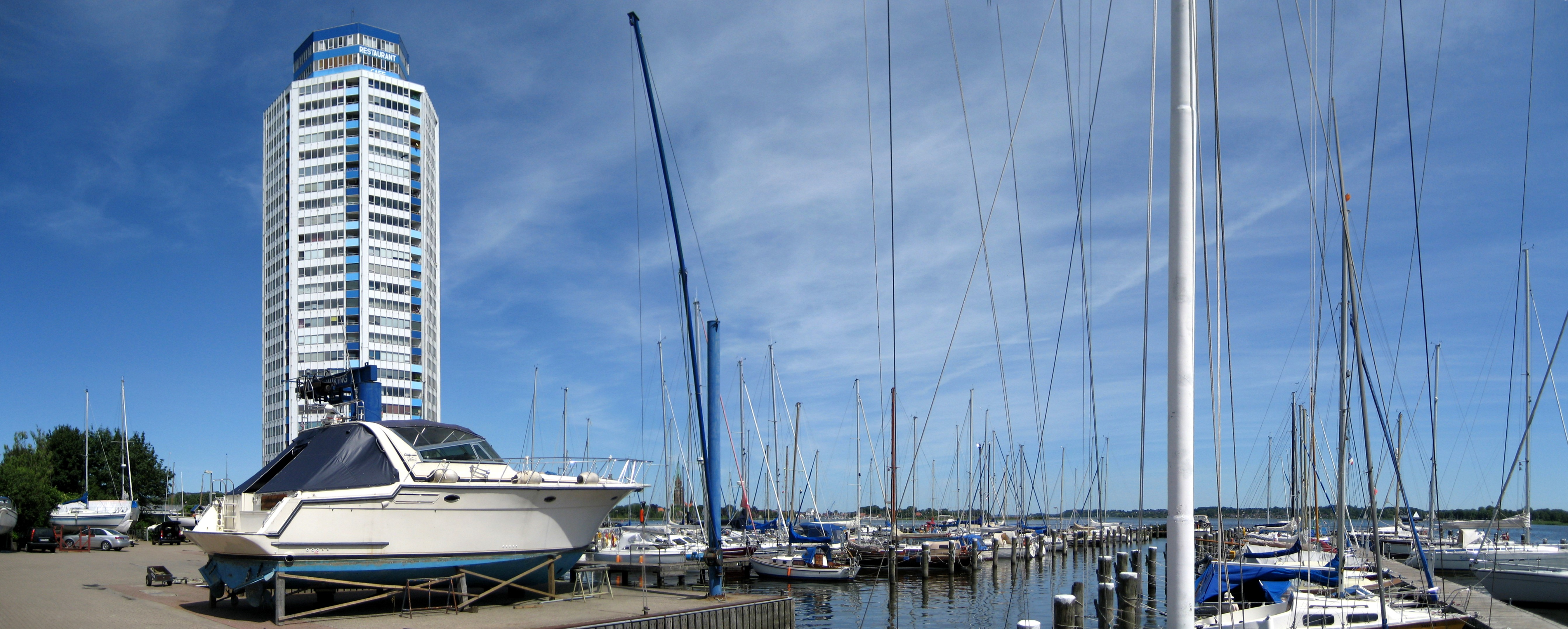 Wikingtower